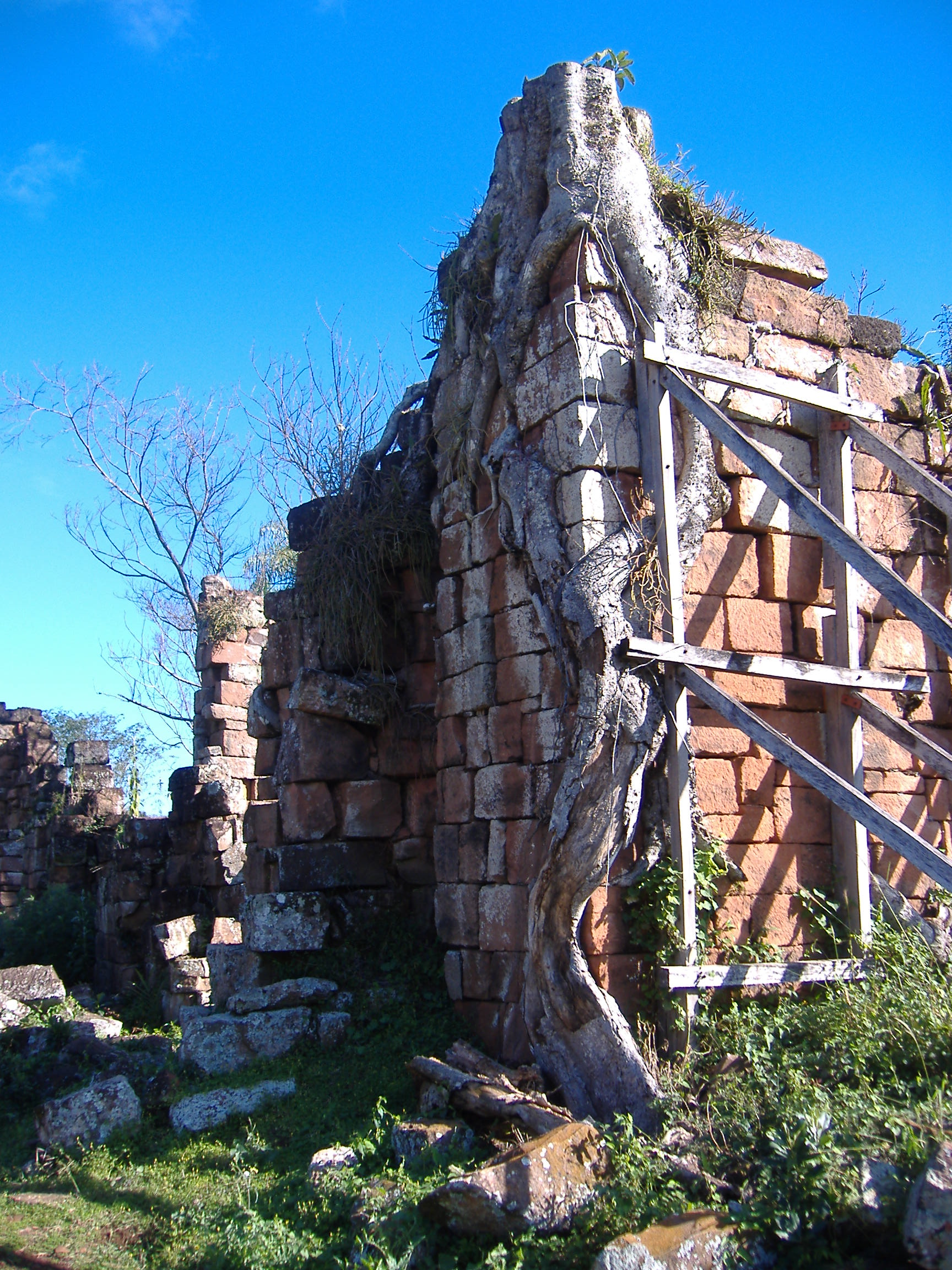 Ruins of the Jesuit-Guarani mission of Nuestra Señora de Santa Ana, in Misiones, northeastern Argentina.